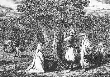 Harvesting an Olive tree (Olea europaea) — in a 19th century artwork.